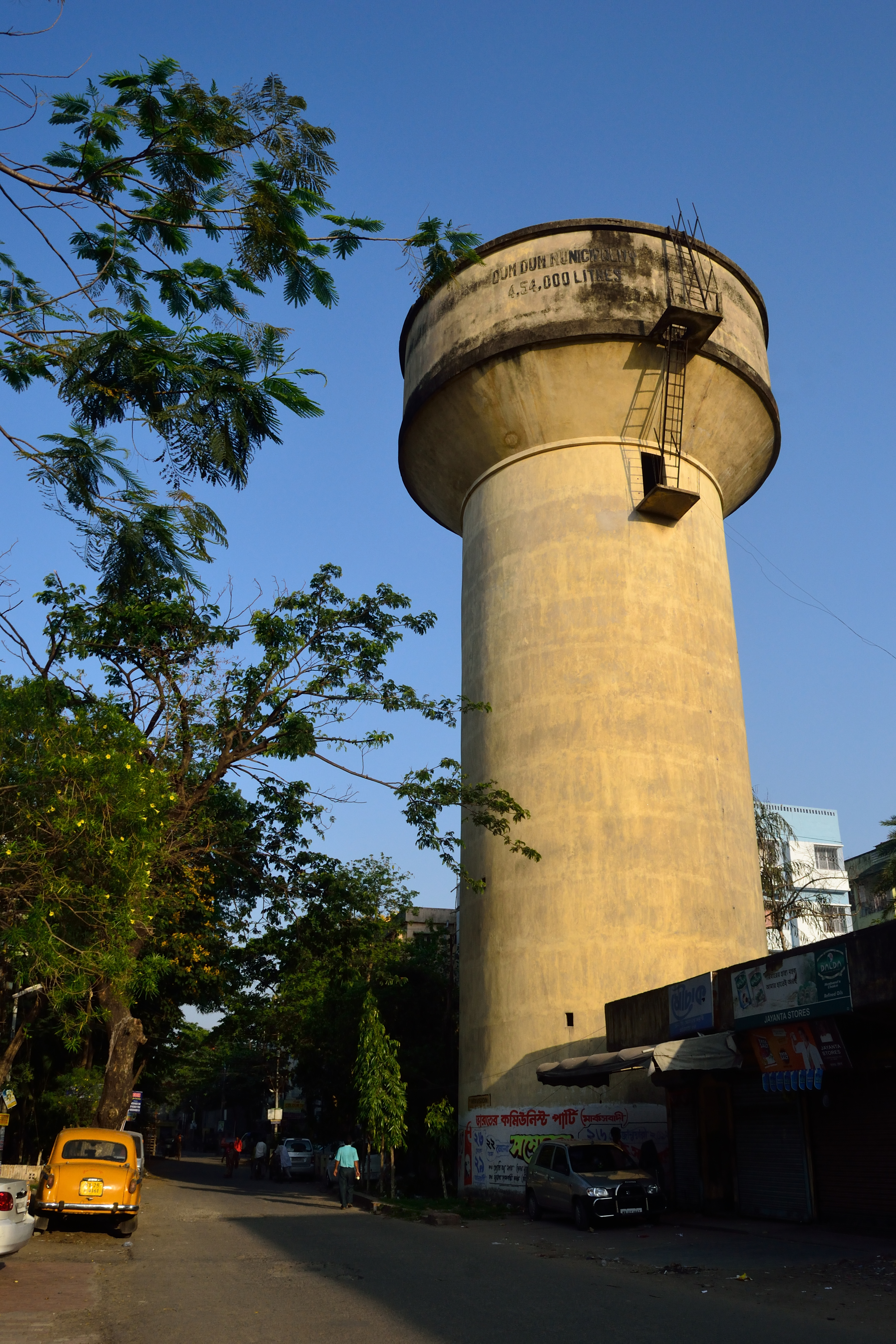 Photographed in Dum Dum area of Kolkata.